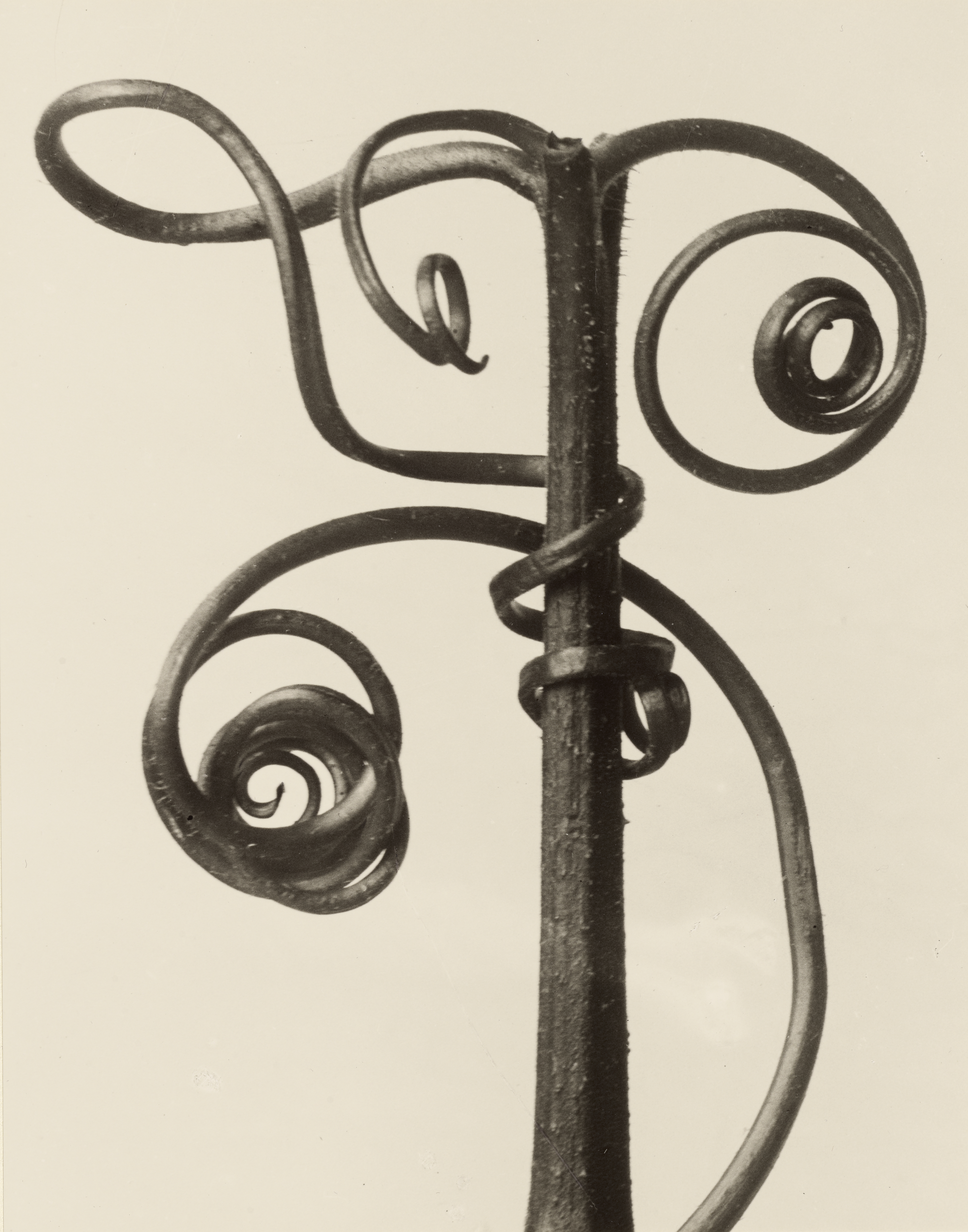 Cucurbita; Karl Blossfeldt (German, 1865 - 1932); Berlin, Germany; 1928; Gelatin silver print; 25.9 × 20.3 cm (10 3/16 × 8 in.); 84.XM.142.10